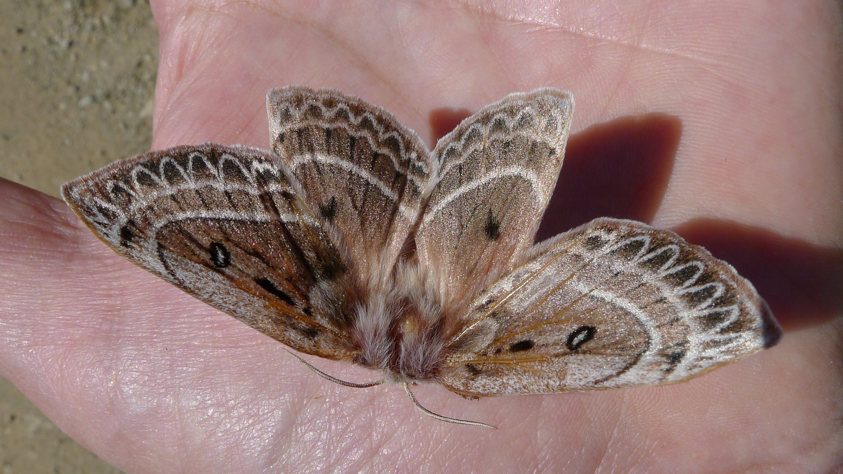 Female Anthela oressarcha. Dargo High Plains, VIC Australia, December 2012. Anthela oressarcha is generally only found in alpine areas. See Australian Moths Online.